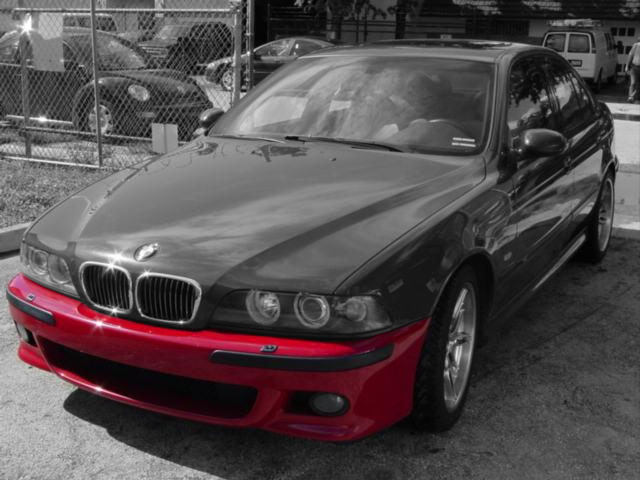 Automobile bumper cover highlighted in red. A modification of Image:BMW M5.jpg.